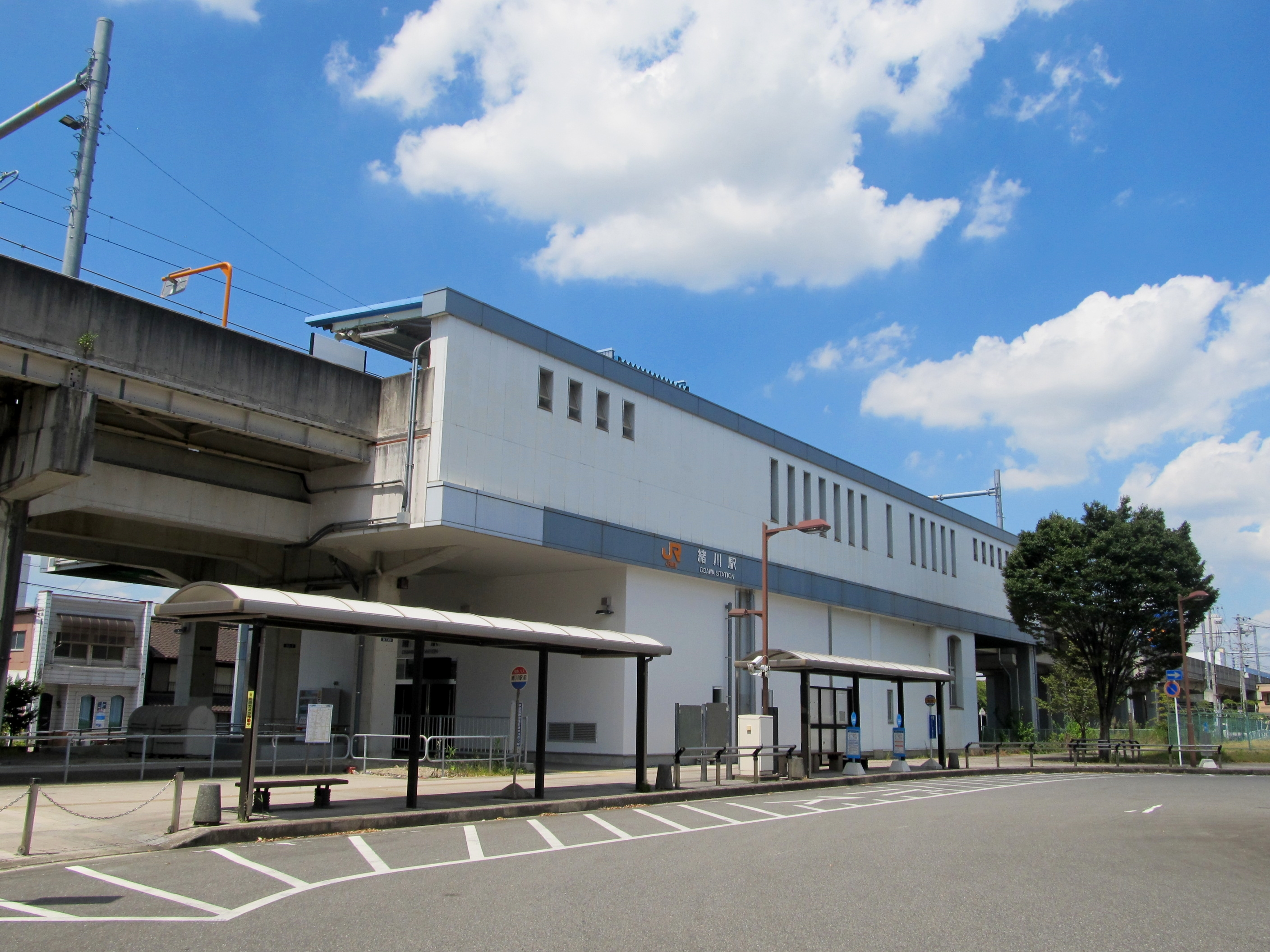 Central Japan Railway Taketoyo Line Ogawa Station Building